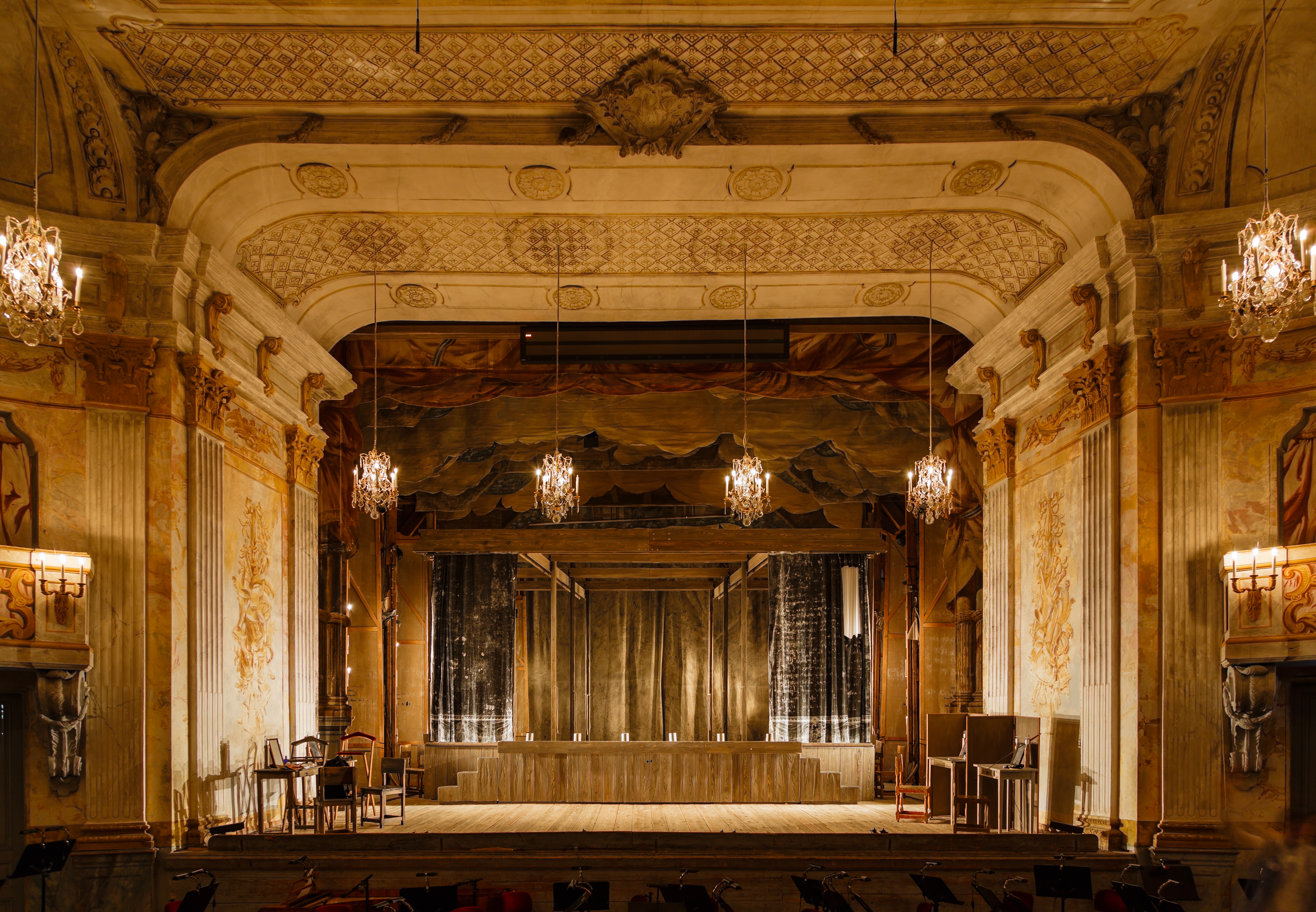 Stockholm, Sweden: Stage of Drottningholms slottsteaterR